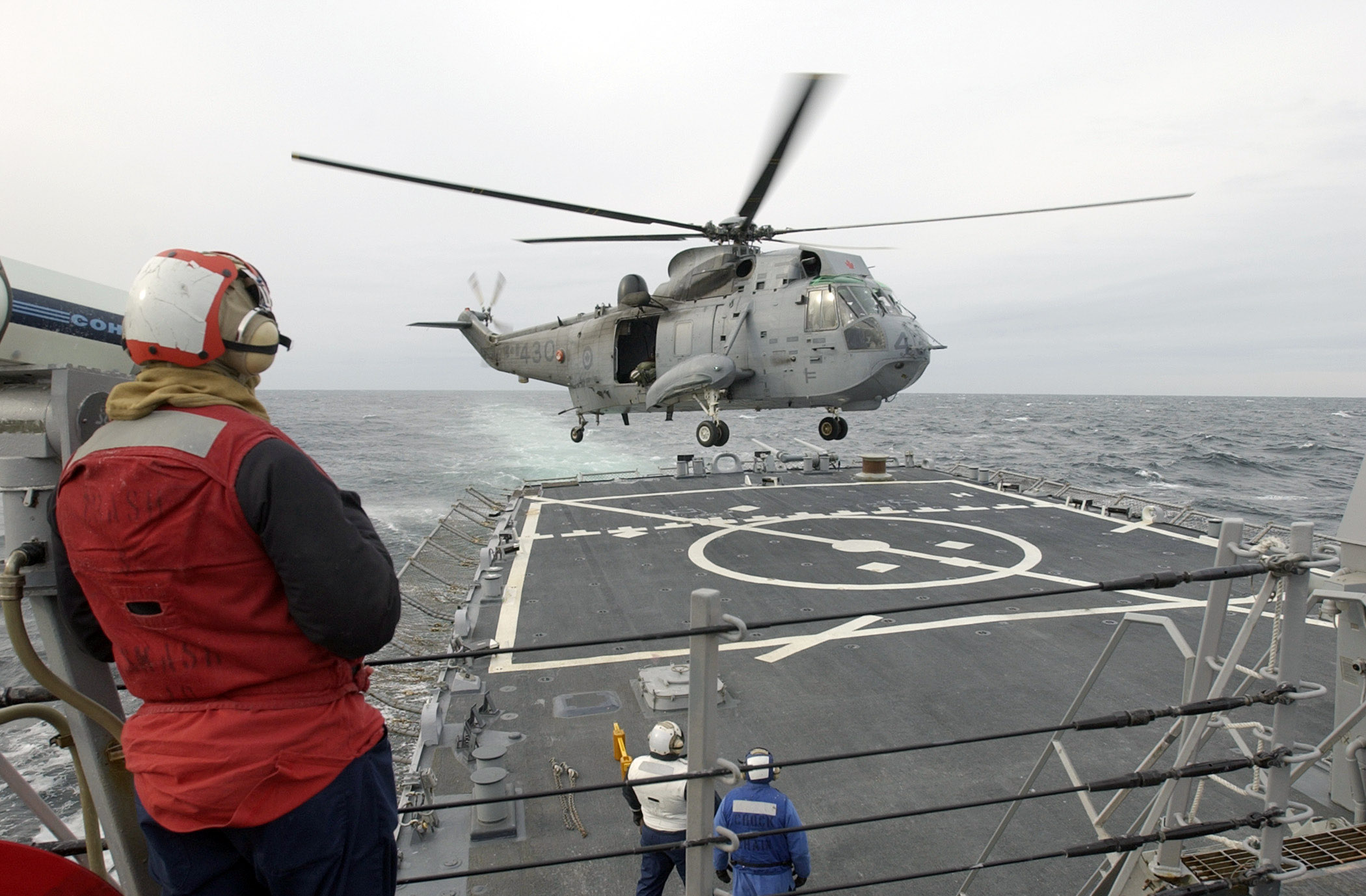 ATLANTIC OCEAN (Jan. 29, 2007) - A Canadian H-3 Sea King lands aboard guided missile cruiser USS Mahan (DDG-72) during a training exercise in the Atlantic Ocean. The Sea King landed and lifted off the Mahan several times providing the ship's flight deck crew with operational training time. U.S. Navy photo by Mass Communication Specialist Seaman Vincent J. Street (RELEASED)